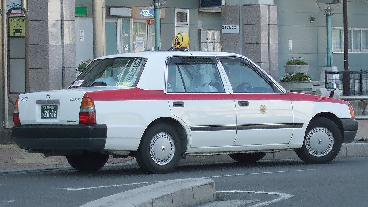 Taiyo Kotsu taxi